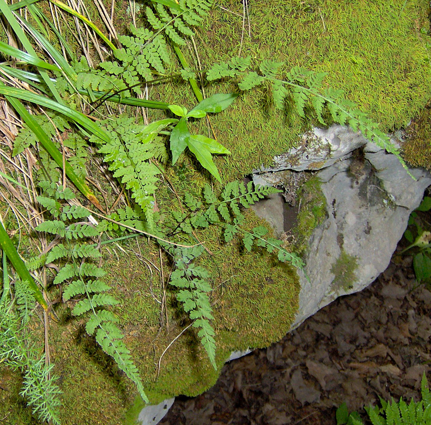 Woodsia obtusa growing at Fox Lake Wildlife Area, Athens County, Ohio